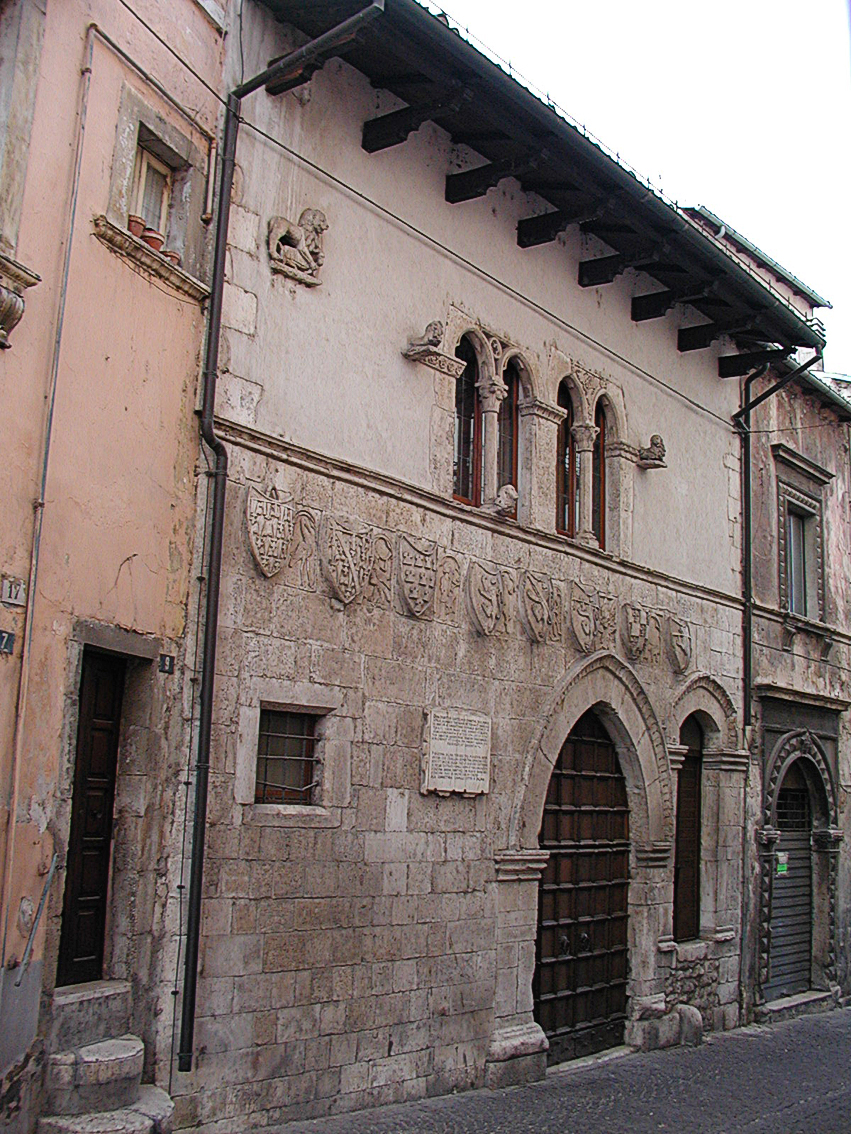 Taverna Ducale